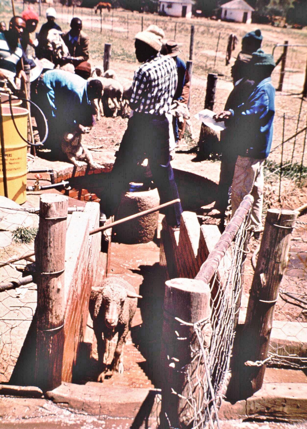 A dip-bath in Lesotho for treating sheep against scab mite Psoroptes ovis and other ectoparasites.